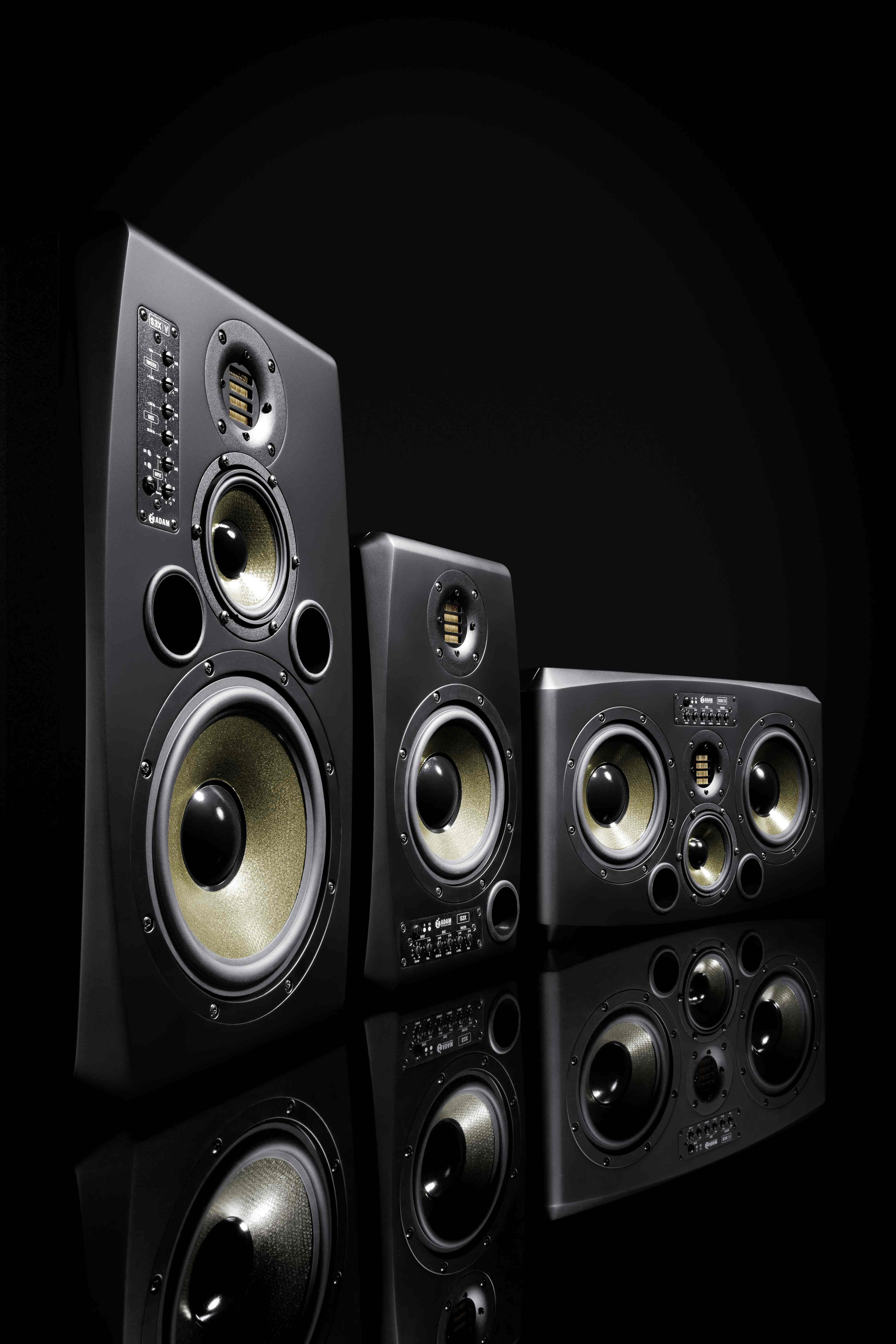 ADAM SX series